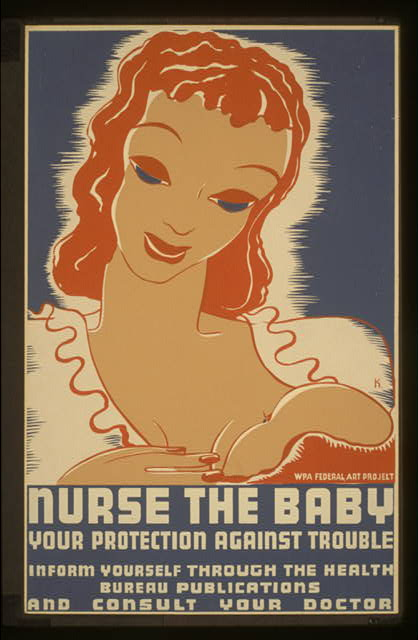 WPA poster promoting breast feeding and proper child care, showing mother nursing baby.